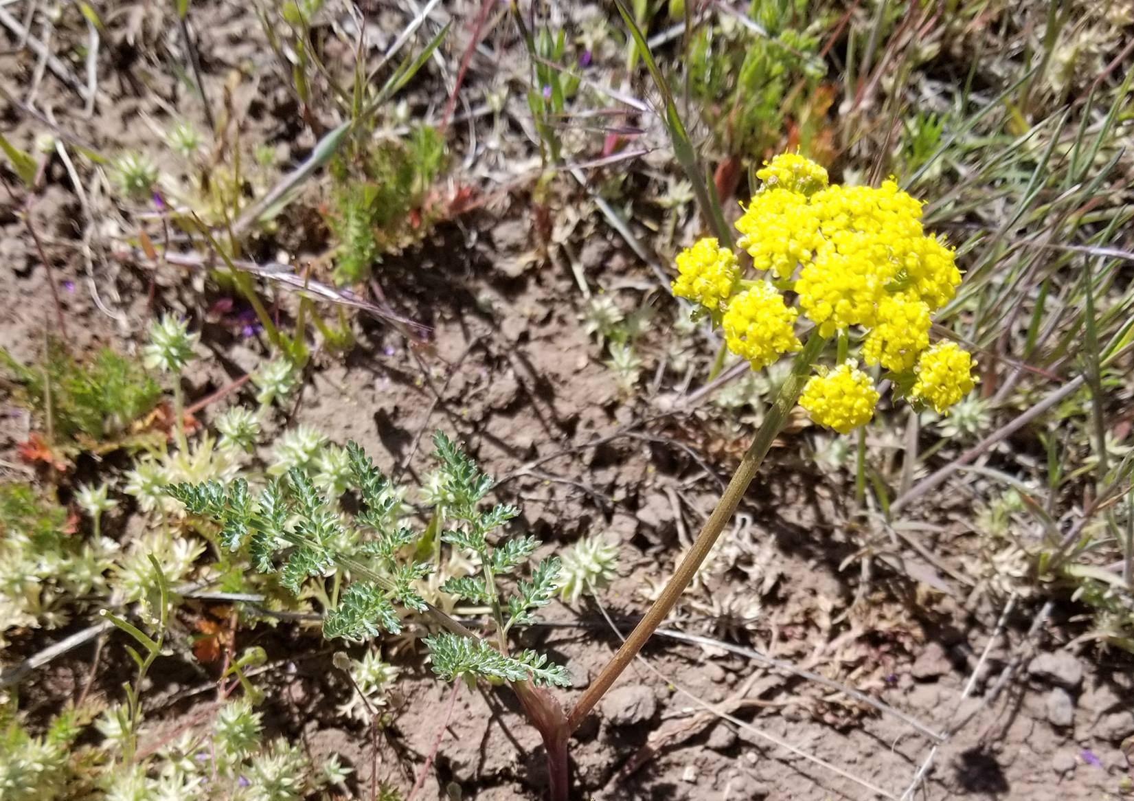 Lomatium vaginatum or broadsheath desertparsley - name according to USDA Plants Database via NRCS, but members of this genus are often called biscuitroot. I cannot speak to the root's flavor, but it was an important source of nutrition for Native Americans. This is a cheerful upland species that I photographed a little above Bull Flat and north of Smoke Creek Road. Lomatiums can be tricky to identify and are numerous in this area. If you're not exactly sure just call it biscuitroot and you'll always be right!